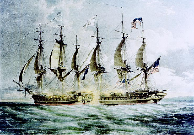 Action between USS Chesapeake and HMS Shannon, 1 June 1813 Colored lithograph by L. Haghe, after a painting by J.C. Schetky based on a design by Captain R.H. King, RN. Published by Smith, Elder & Company, London, in 1830. This print (Plate No. 1 of four) depicts the commencement of the action, with the two frigates exchanging gunfire at close range. Original caption: “Photo # NH 63177-KN Commencement of the action between HMS Shannon and USS Chesapeake”